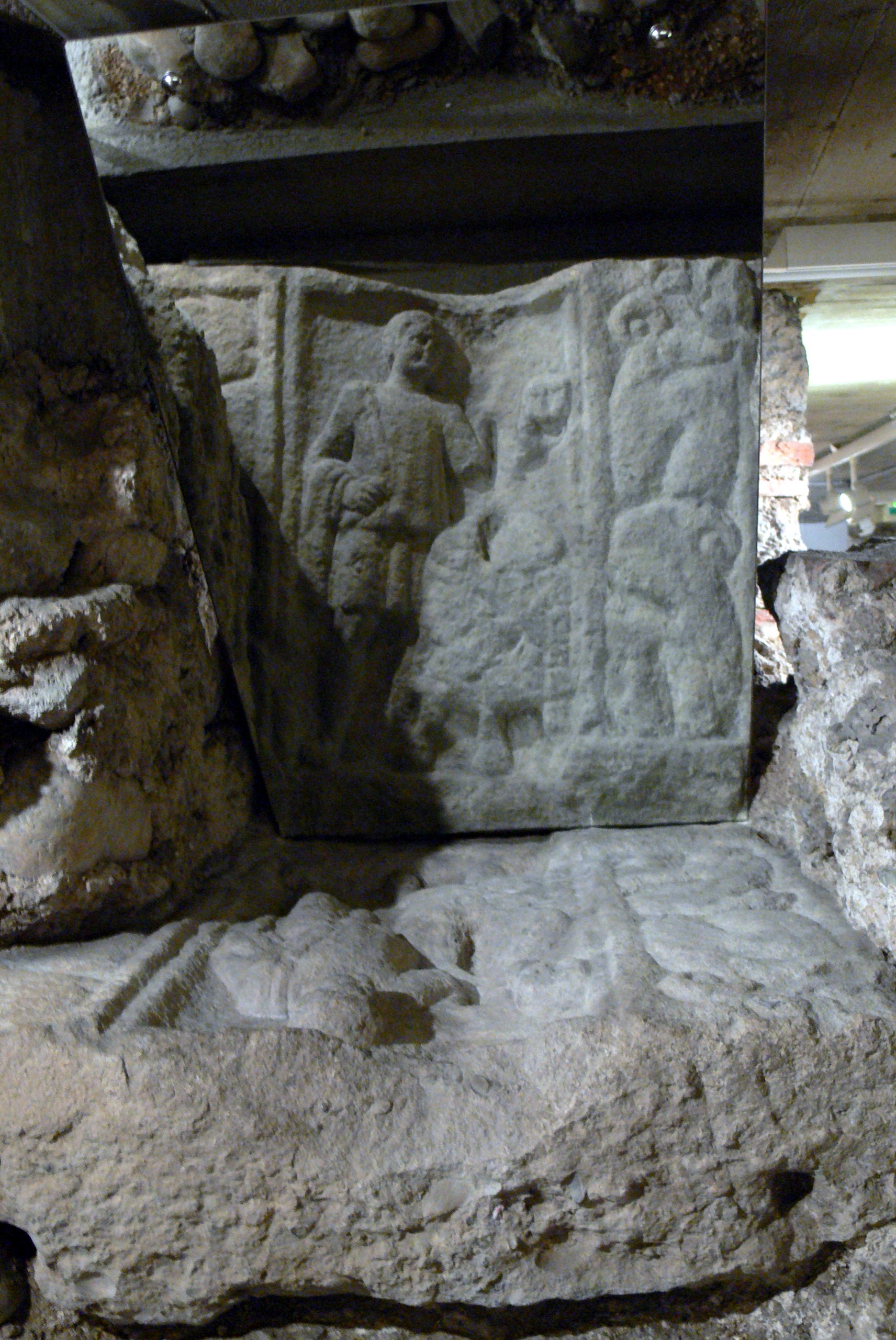 Lorch ( Enns/Upper Austria ). Basilica of Saint Lawrence: Excavations of an ancient Roman house ( 2nd century ) - Relief of sacrificial ceremony, used as spolia in the foundations of the early Christian church.